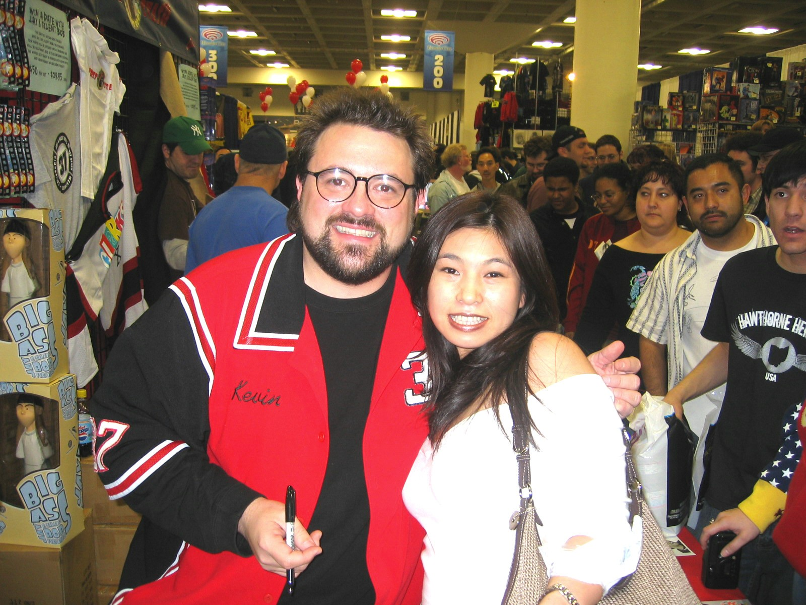 "His Silentness", Kevin Smith & _et. He bears the distinction of being the only person I have yet to bear (ok, enjoy...though I do so love throwing the word "bear" in there, post-Con) on DVD commentary (movies: Clerks, Chasing Amy). His panel discussion was definitely one of the highlights of Saturday's Con festivities. ...just a thought. I think Silent Bob's next debut should incorporate some of the valuable phrases we learned from the sign language interpreter that day...